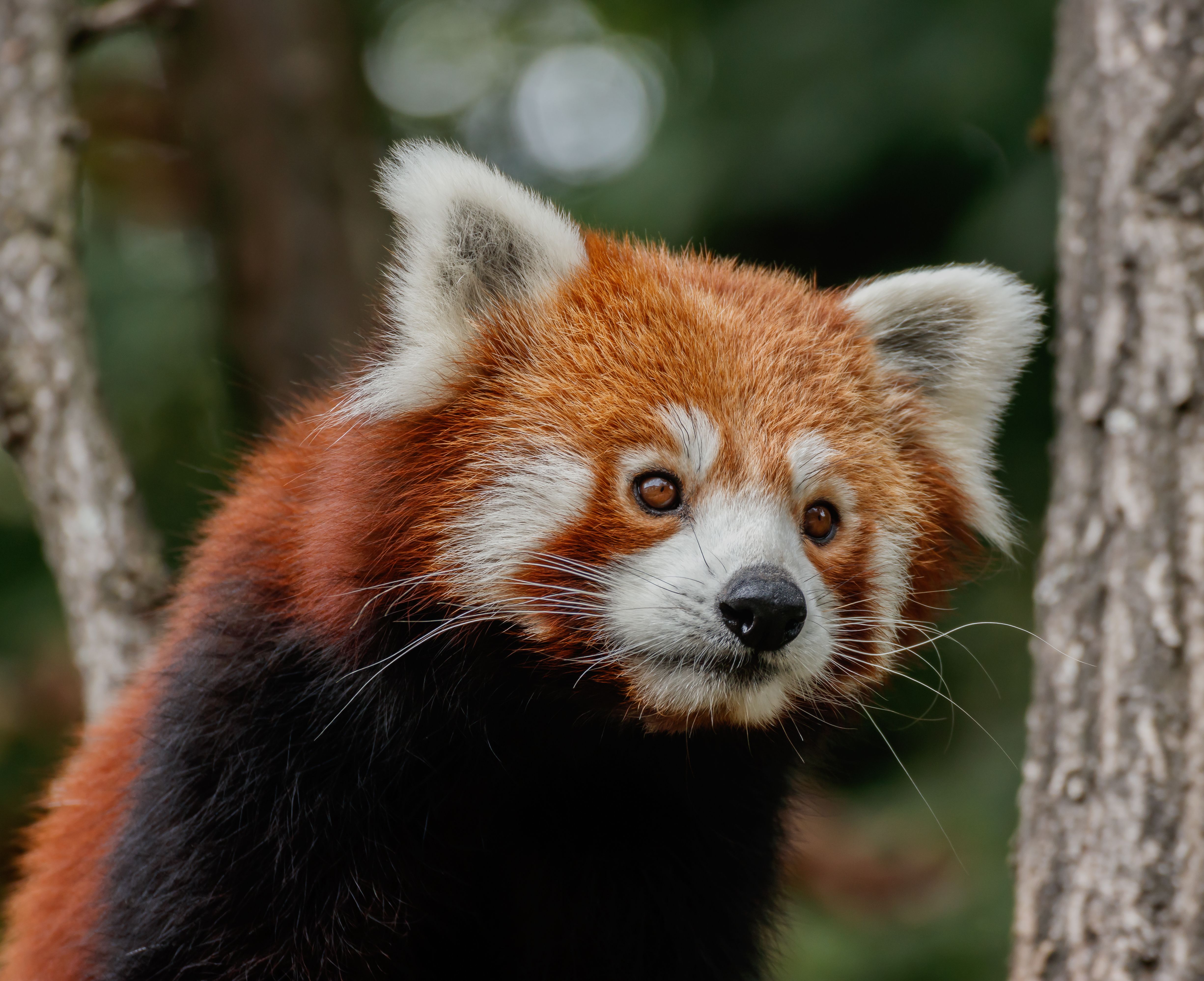 Ailurus fulgens Cuvier, 1825, Red panda; Karlsruhe Zoo, Karlsruhe, Germany.